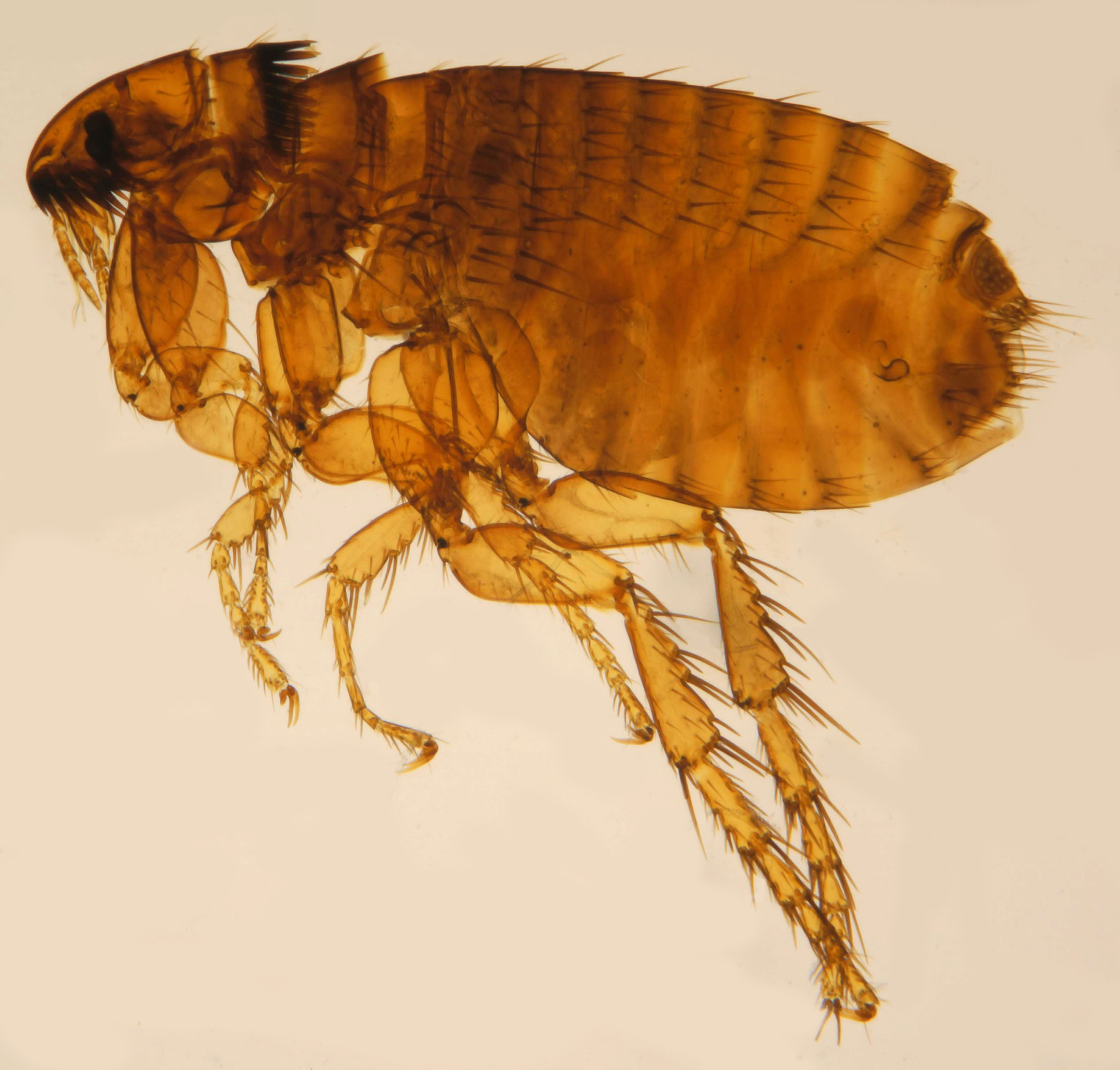 Ctenocephalides felis, female, stored in ZSM collection